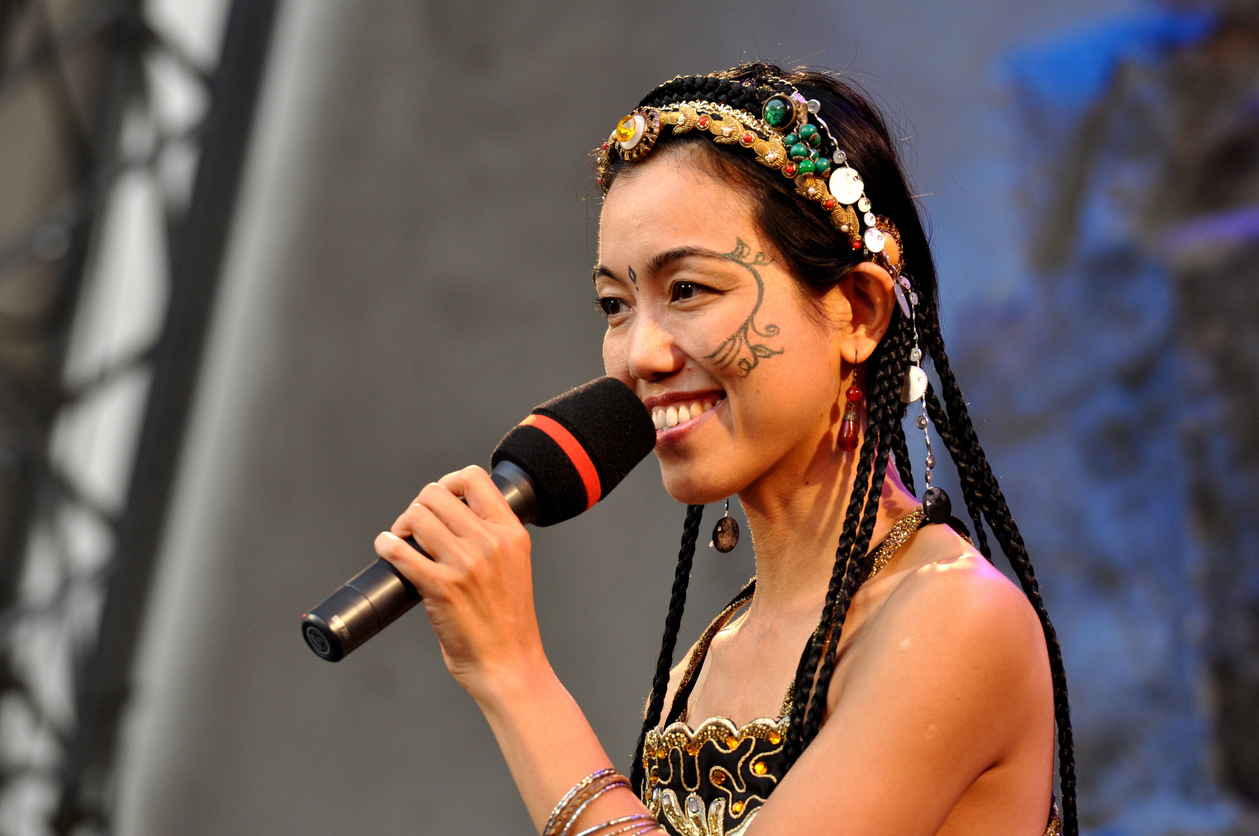 A Moving Sound (TWN), St. Katharina stage, 40th music festival 'Bardentreffen' 2015 at Nuremberg, Germany Festivalsommer This photo was created with the support of donations to Wikimedia Deutschland in the context of the CPB project "Festival Summer".